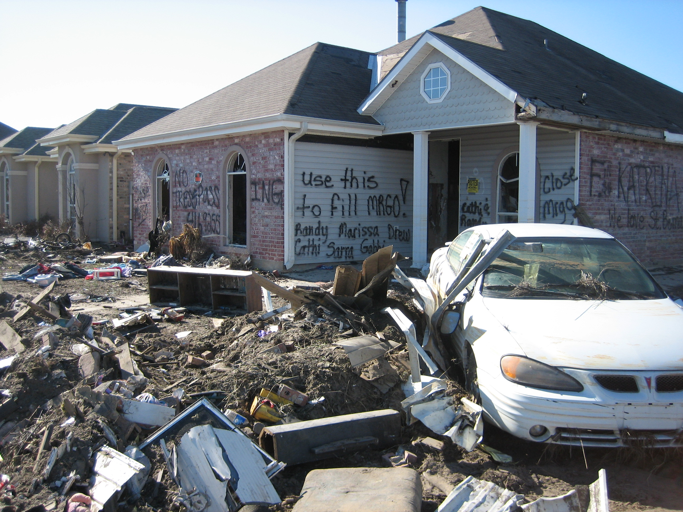 Hurricane Katrina aftermath in St. Bernard Parish, Louisiana: House in Chalmette neighborhood devestated by storm surge from Mississippi River Gulf Outlet ("MRGO") has graffiti suggesting ruins be used to fill in the "MRGO".